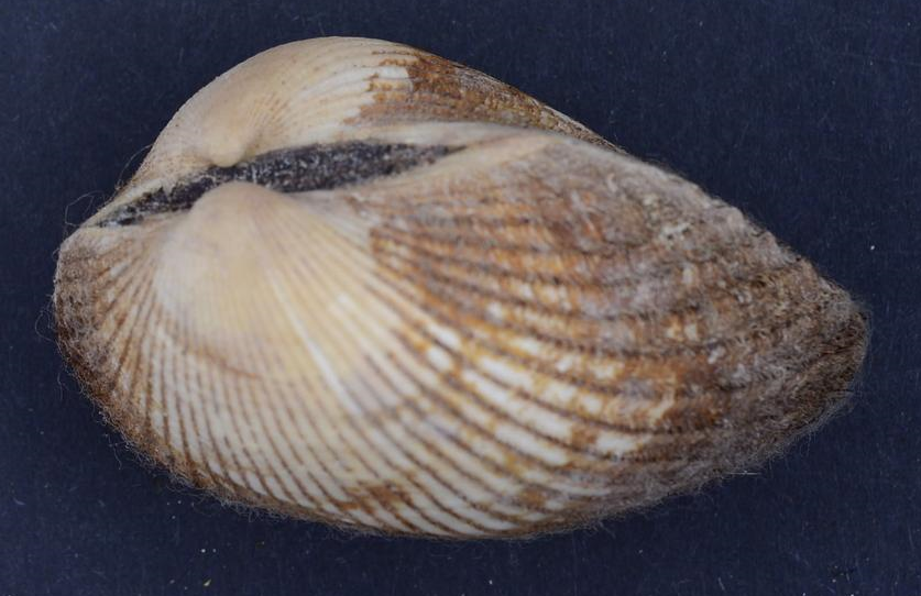 Anadara antiquata (Linnaeus, 1758) , Arcidae, Bivalvia, cropped from File:Naturalis Biodiversity Center - ZMA.MOLL.410924 - Anadara antiquata (Linnaeus, 1758) - Arcidae - Mollusc shell.jpeg